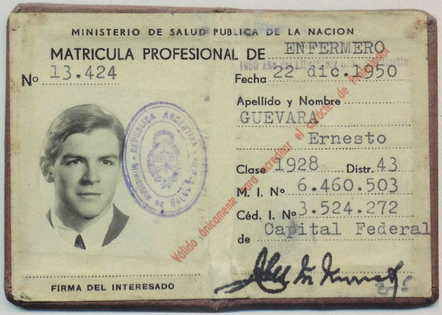 Official document related to Che Guevara's medical education from Argentina (dated December 22, 1950). It reads "National Ministry of Public Health, Professional Nurse Enrollment".